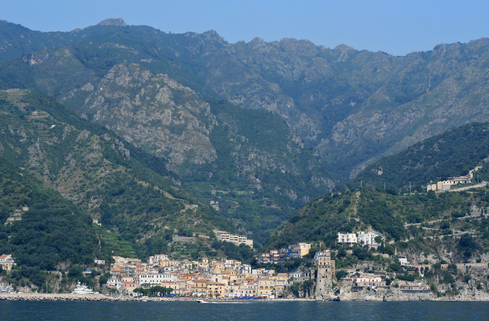 Cetara on the Amalfi coast, Italy